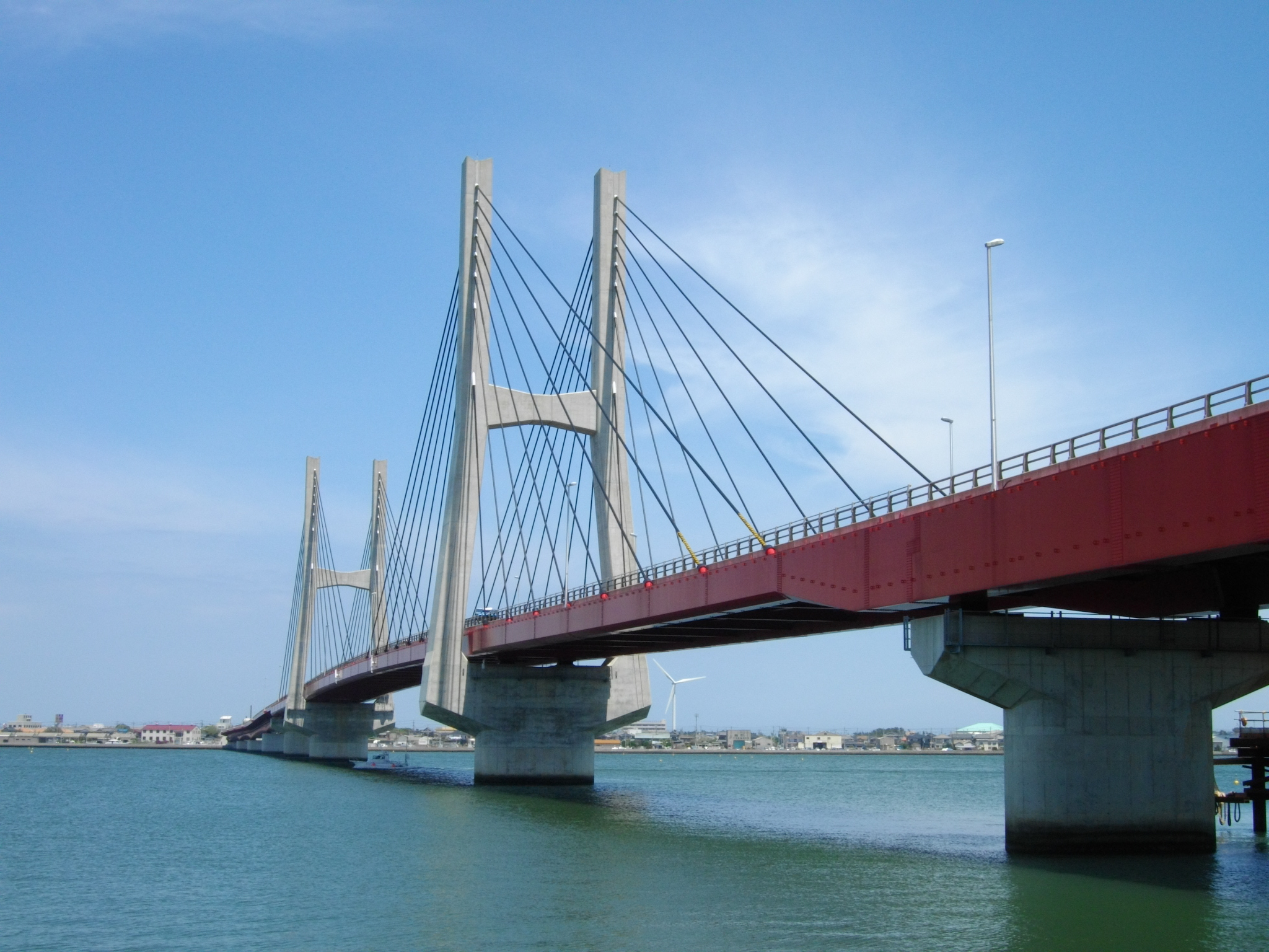 Choshi_Bridge